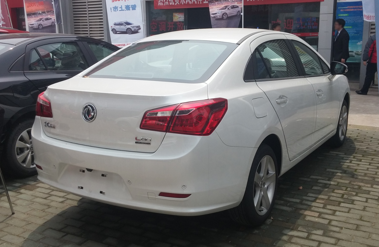 Dongfeng Fengshen L60 photographed in Wuhan, Hubei province, China.